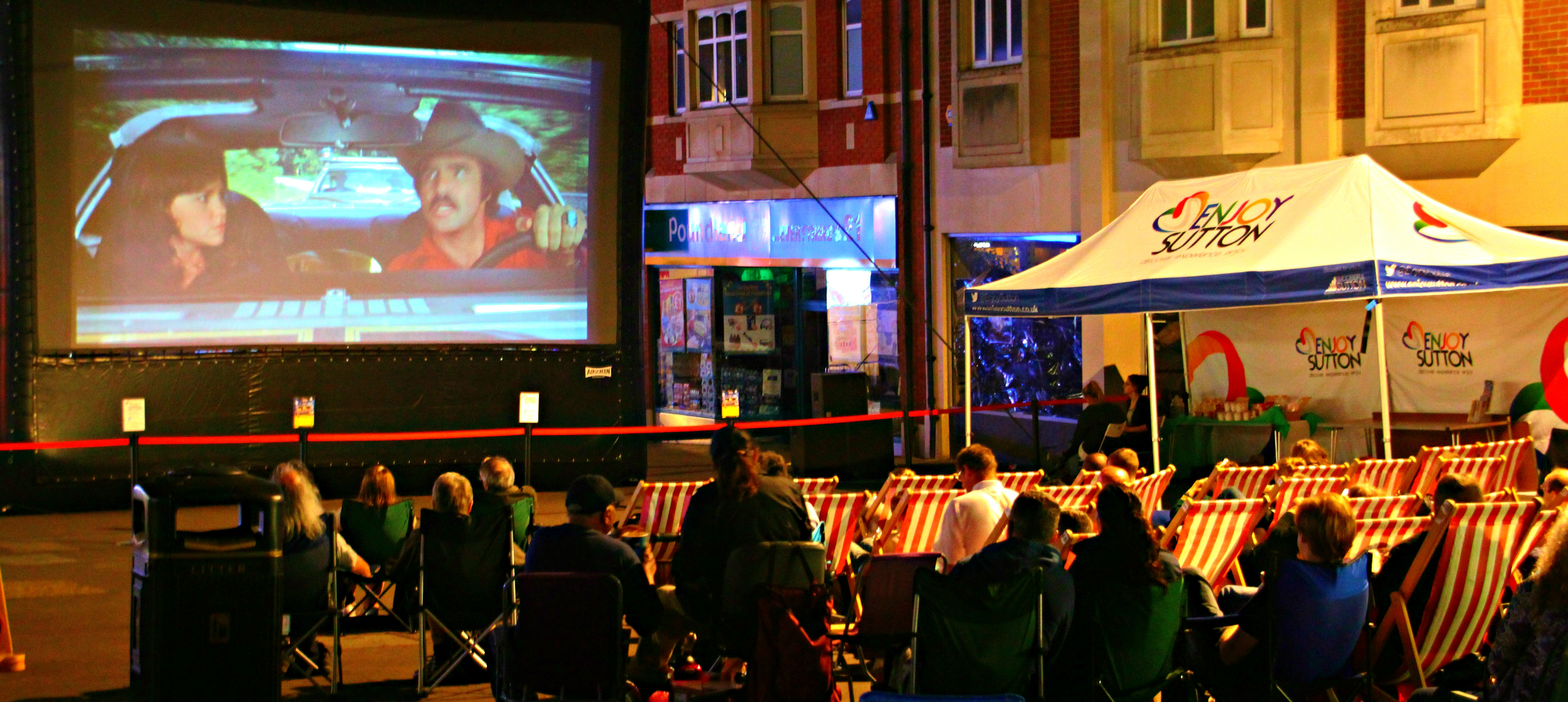 Locals enjoy the 1970s classic film, Smokey and the Bandit on the big screen.